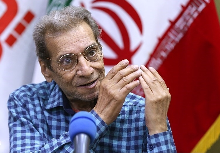 Hossein Moheb Ahari